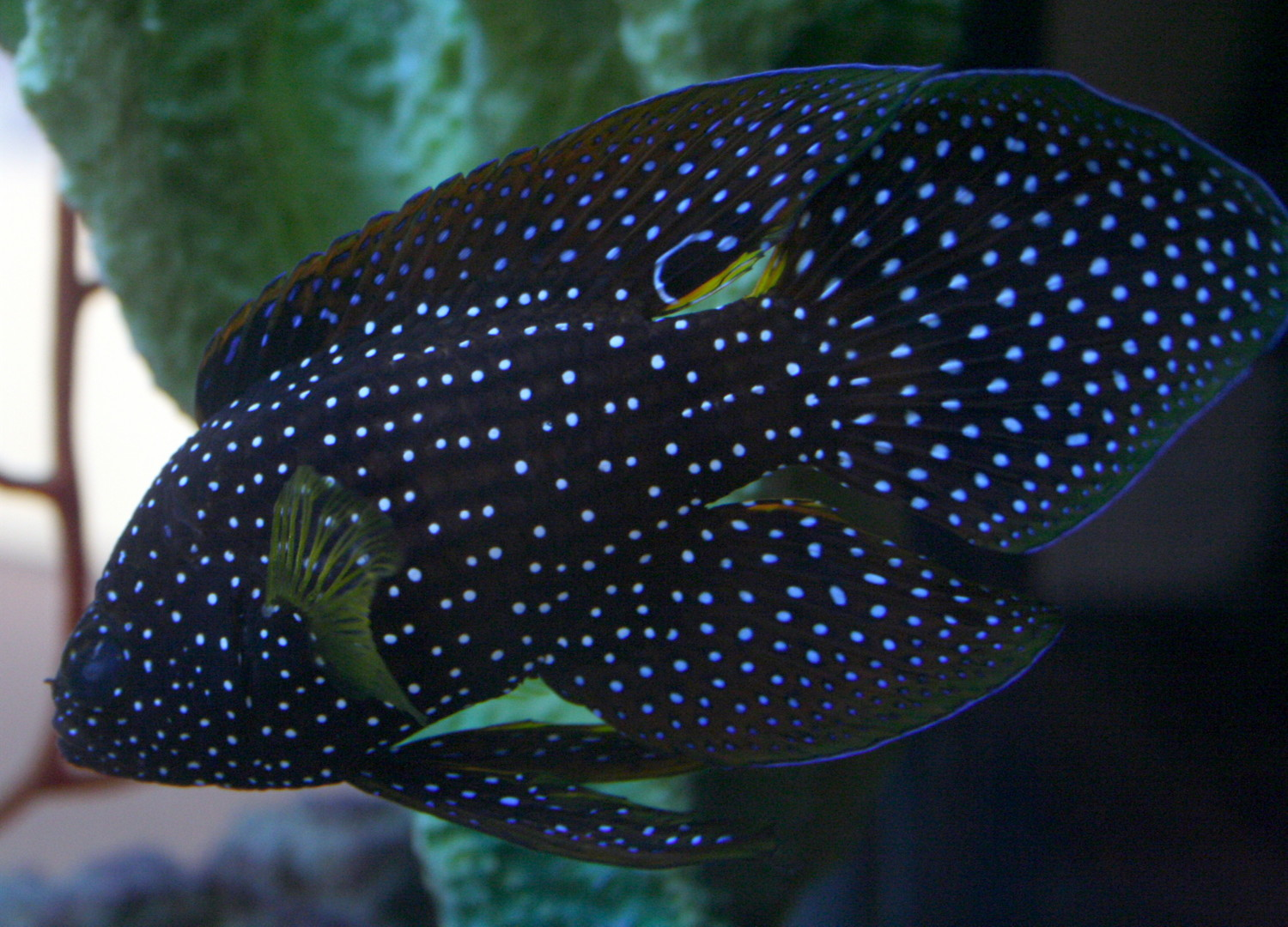 Calloplesiops altivelis